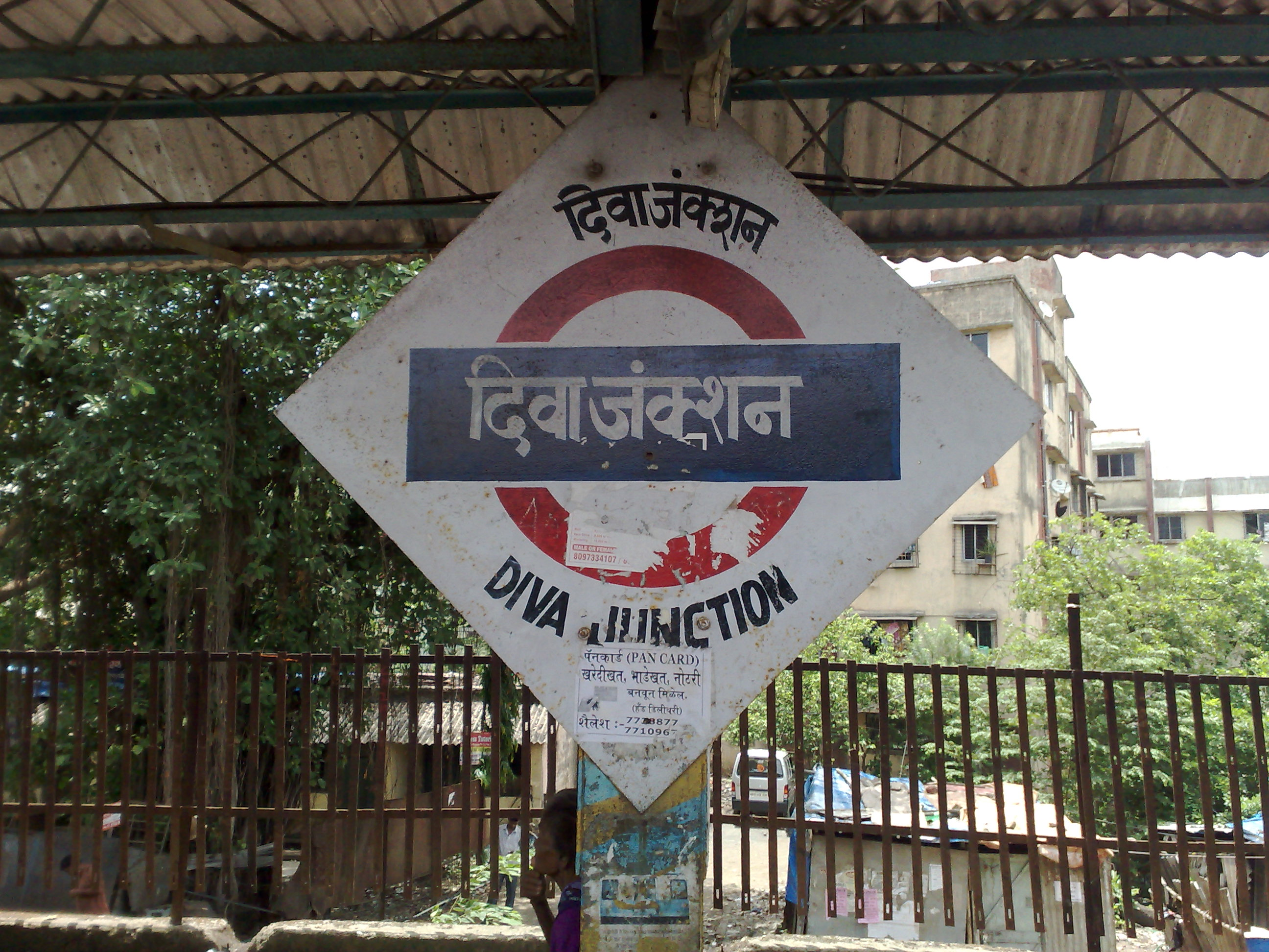 Diva Junction railway station - Platformboard